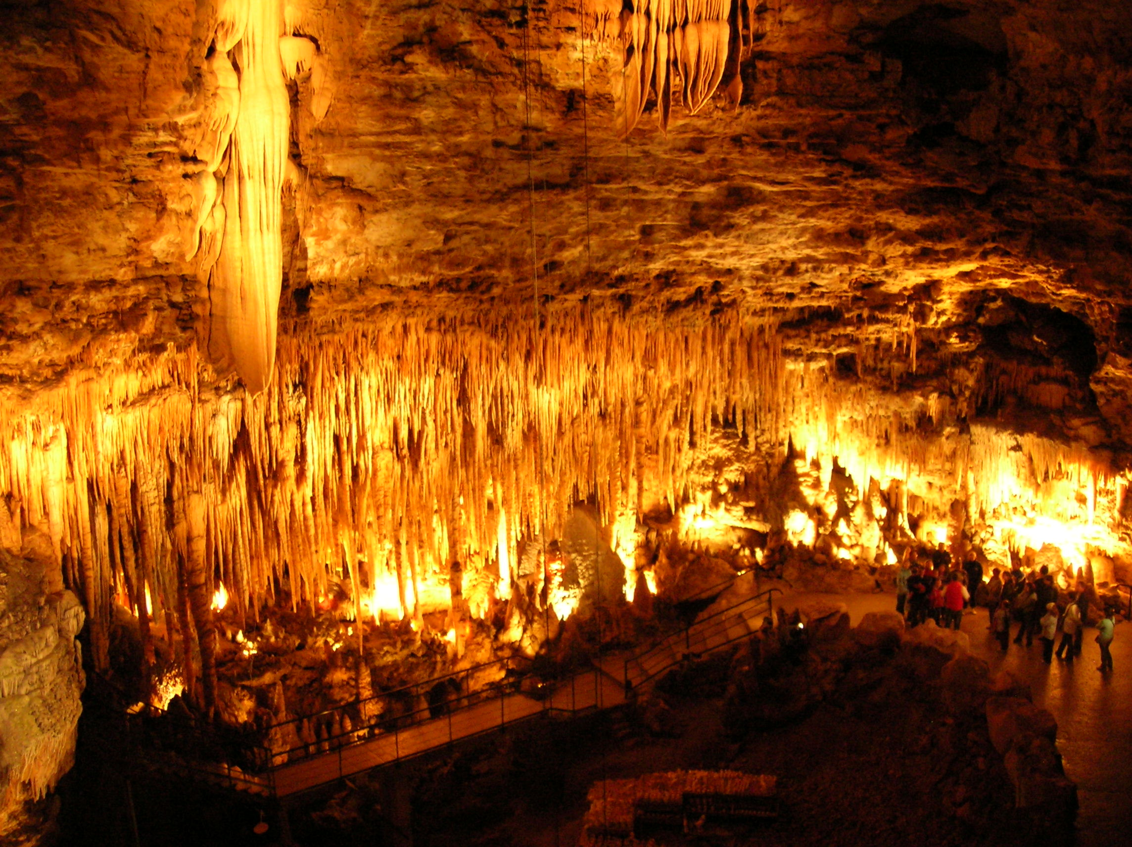 Concretions in the cave of Proumeyssac (Périgord, France). (NB:photo taken without flash in order to respect the place)